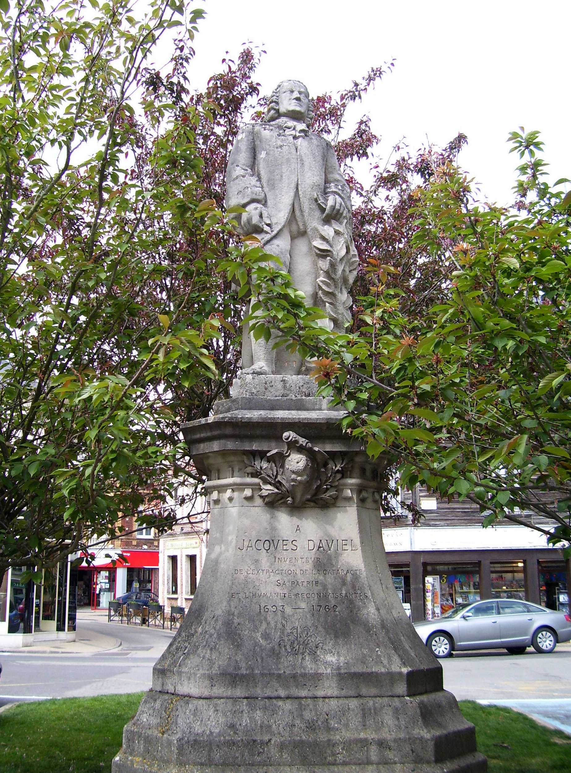 Monument to Jacques Daviel in Bernay (Eure,France).